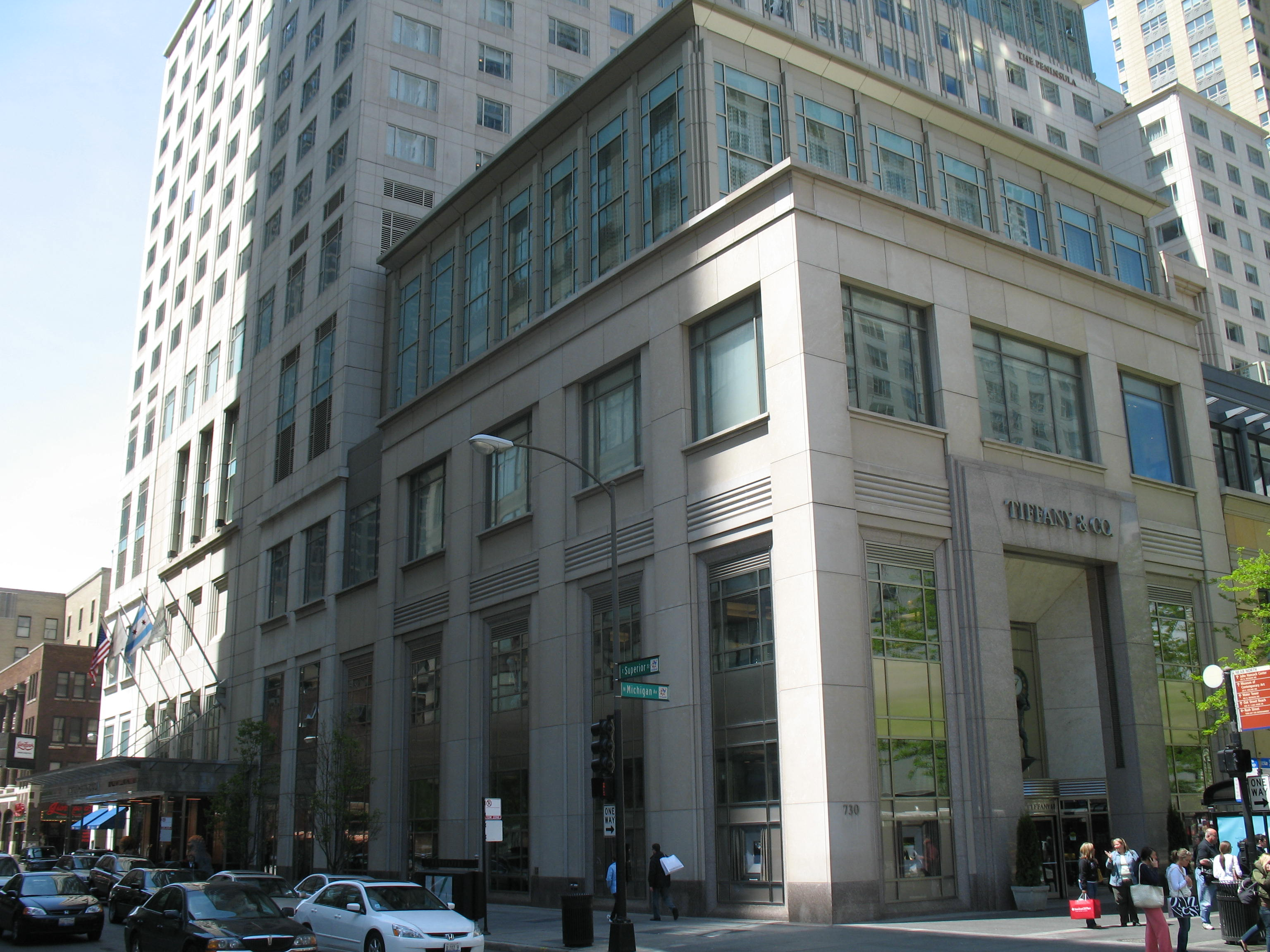 Magnificent Mile Tiffany & Co Store and Peninsula Hotel